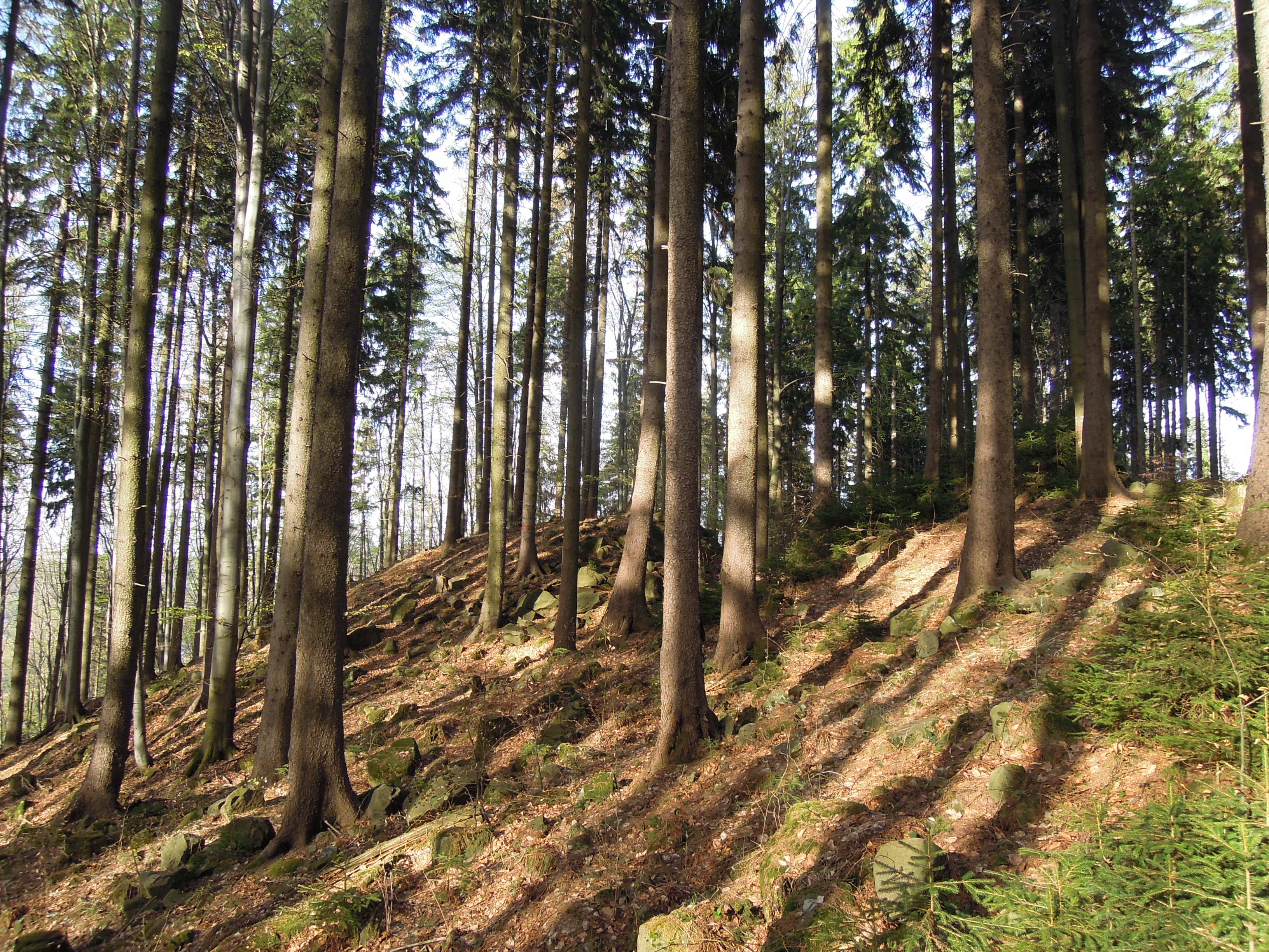 Natural monument Kopce in Lidečko, Vsetín District, Zlín Region, Czech Republic